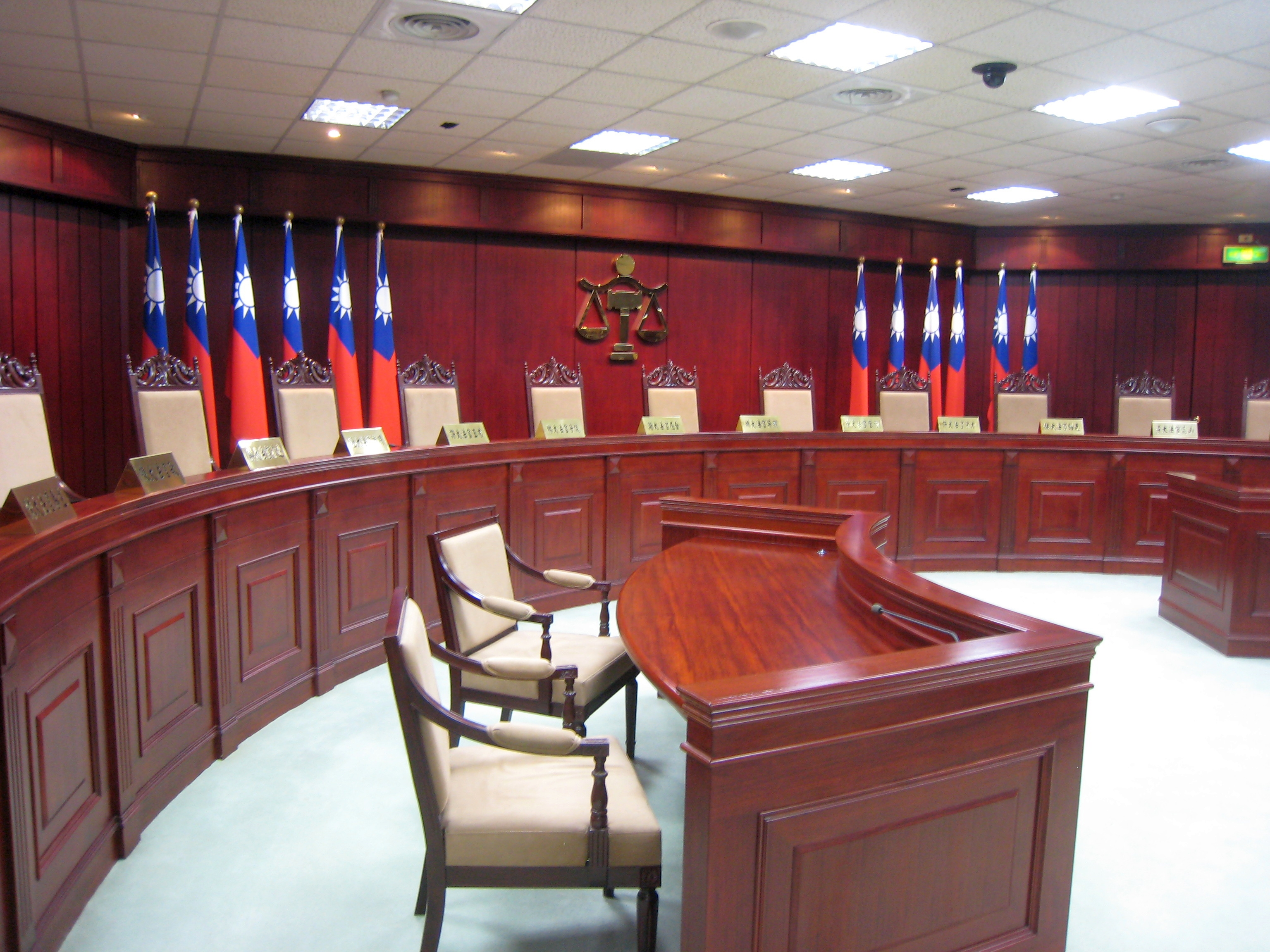 Courtroom of the Constitutional Court (Council of Grand Justices) of the Republic of China in the Judicial Yuan building in Taipei, Taiwan.